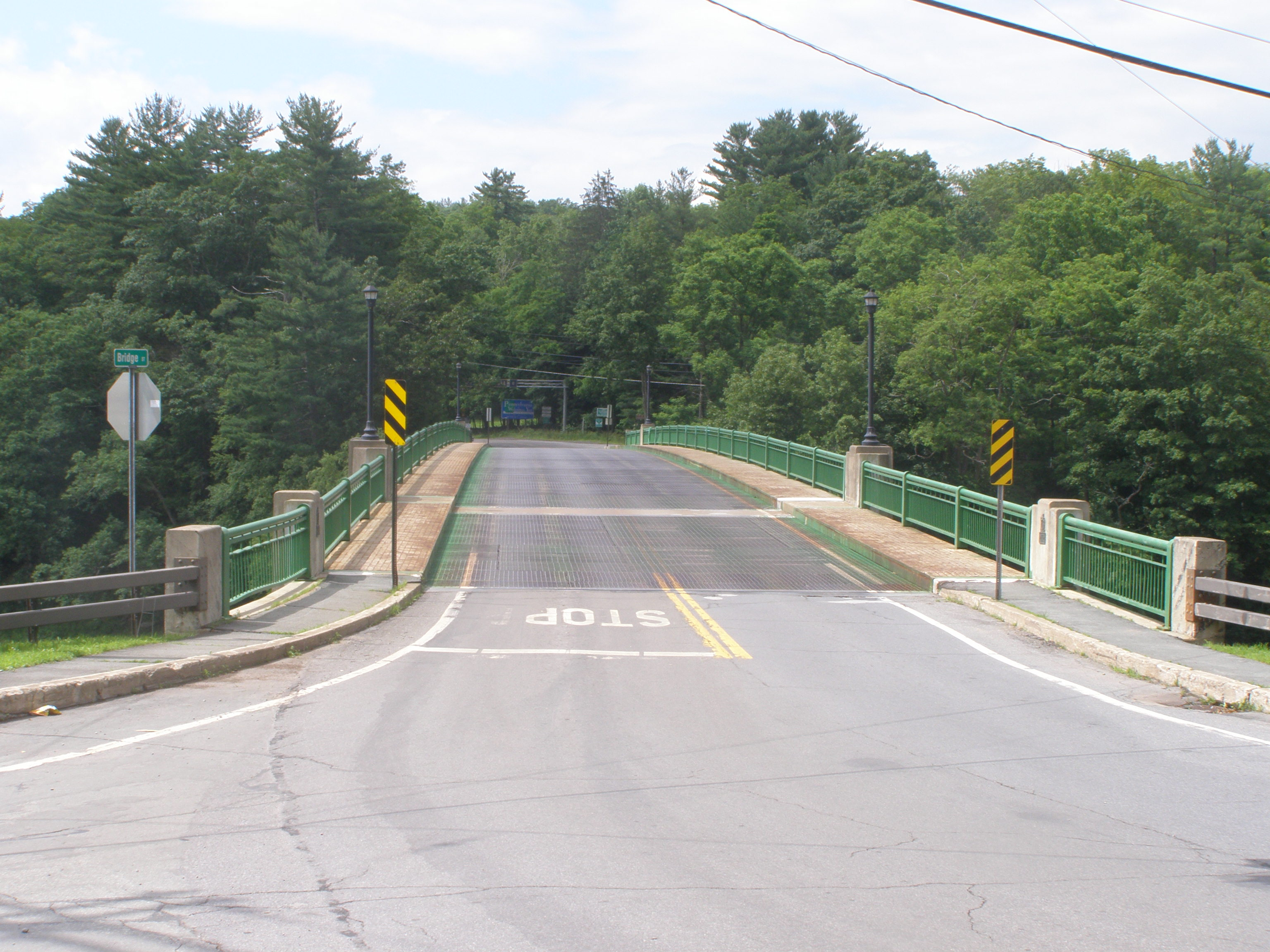 Narrowsburg–Darbytown Bridge between New York and Pennsylvania on the Delaware River.